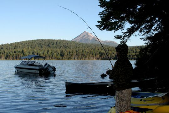 Fisherman near Aspen Point Campground at Lake of the Woods in the Winema National Forest of southern Oregon